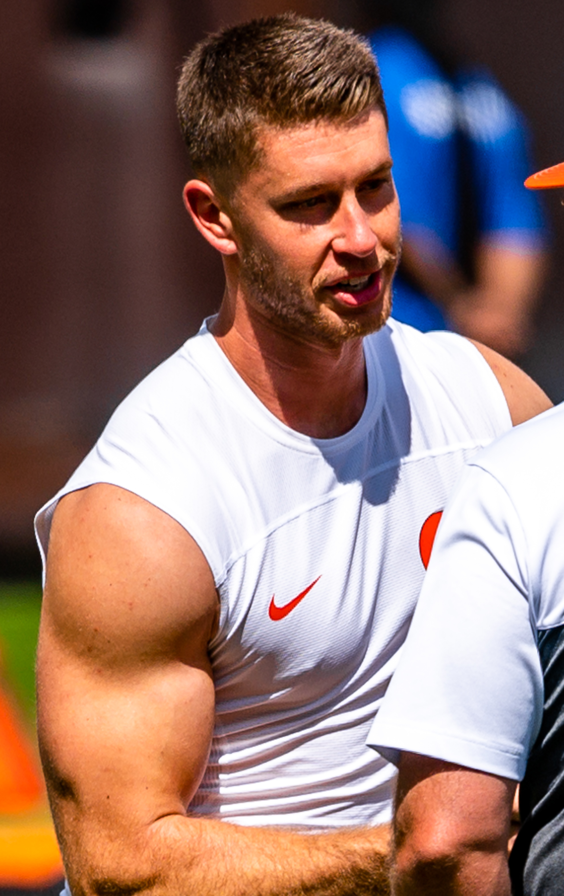 Greg Joseph and Phil Dawson